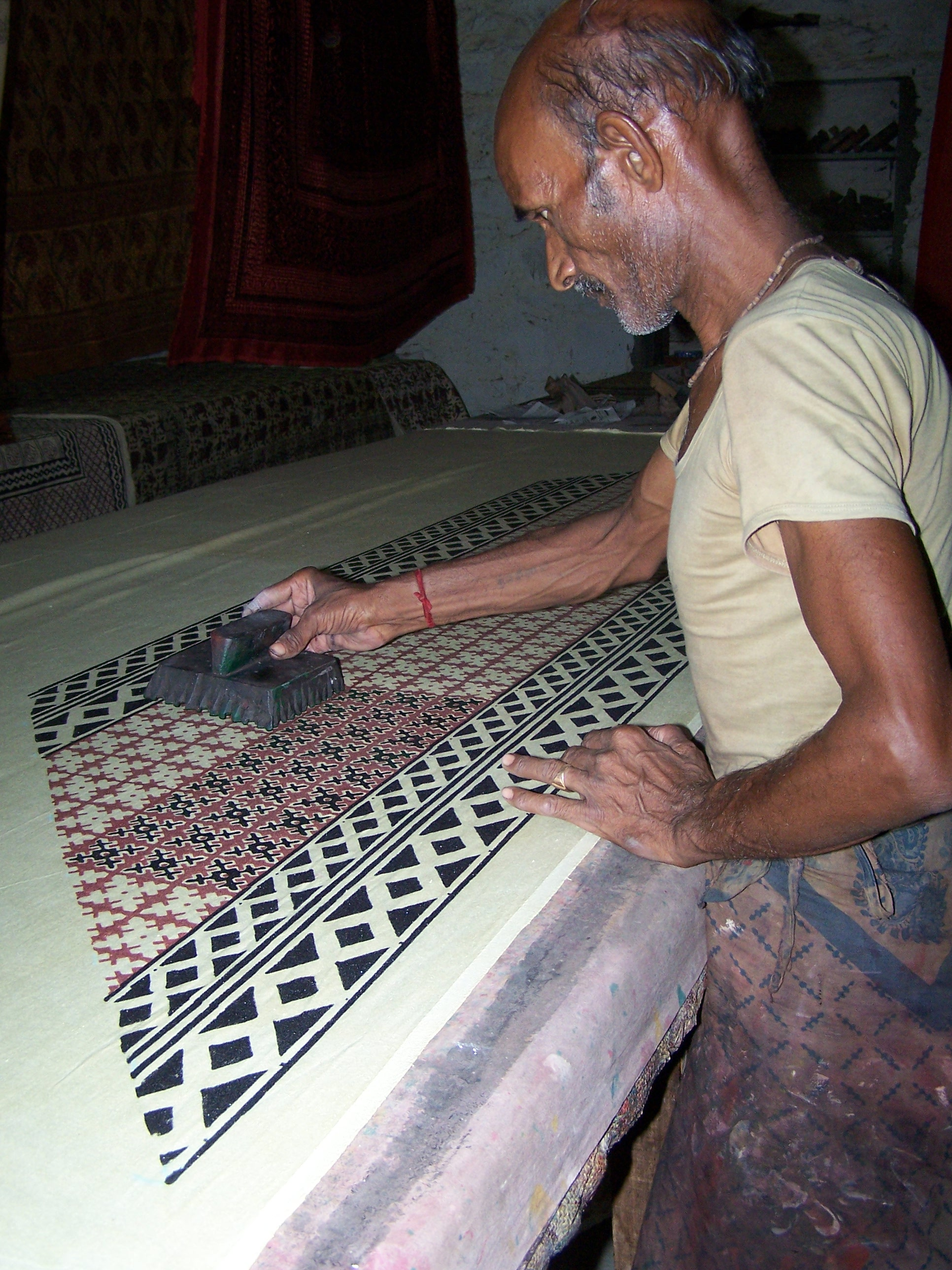 A man in India applies patterns to a cloth with a small iron.